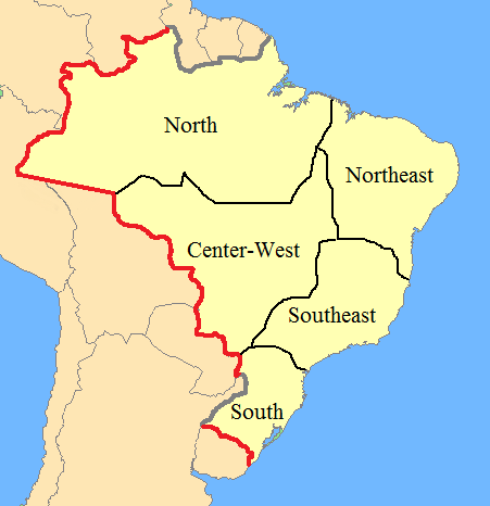 International borders of Brazil in 1889. Locator map of Brazil, based on public domain material from demis.nl